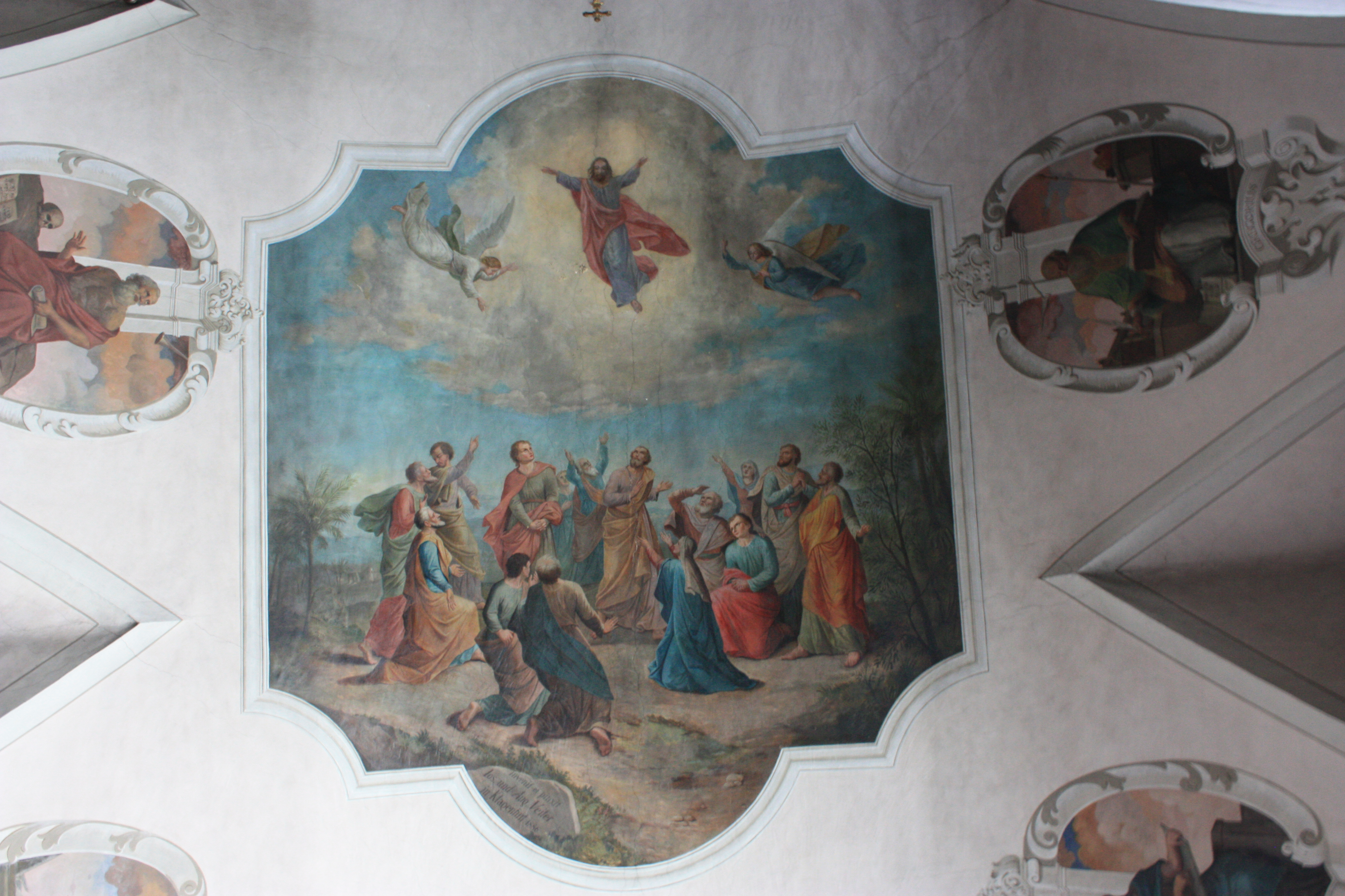 Holy Spirit church: Cellingpainting: Assumption of Christ Locality: Heiligengeistplatz Community:Klagenfurt